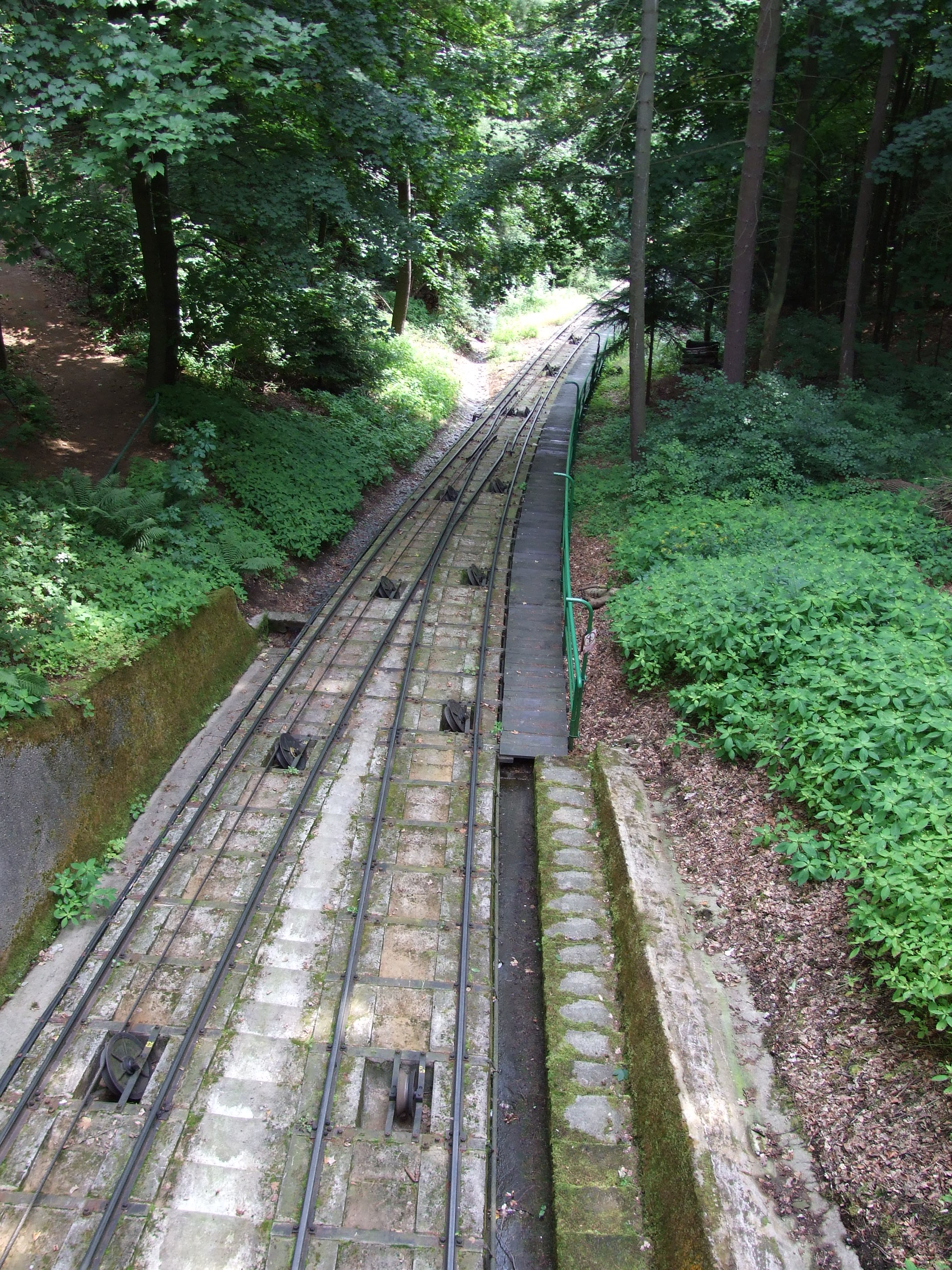 Diana funicular in Karlovy Varyhelp